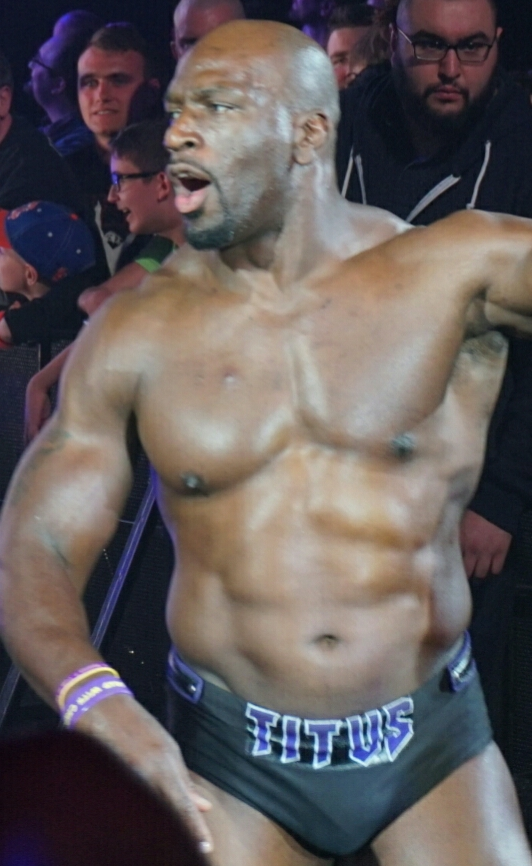 Apollo Crews, Kalisto, Goldust & R-Truth defeat Bo Dallas, Curt Hawkins, Curtis Axel, Titus O'Neil (in Eight Man Tag Team Match) ( Le vendredi 12 mai, la WWE Live Tour fera escale au Country Hall a Liege pour le spectacle de catch de l'annee! Au programme: des duels impitoyables et des rencontres captivantes entre les meilleures equipes et les plus grands rivaux. )